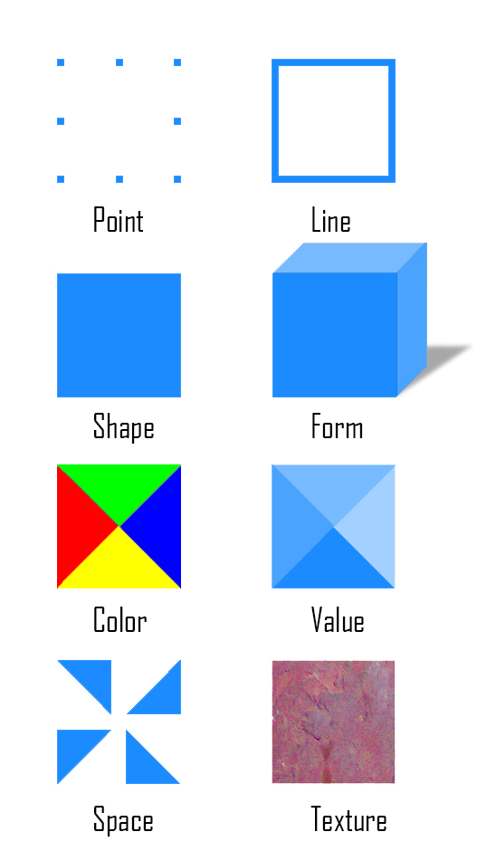 Elements of art and design